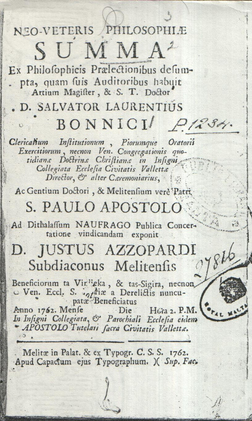 1762 philosophy publication in Malta by Justus Azzopardi